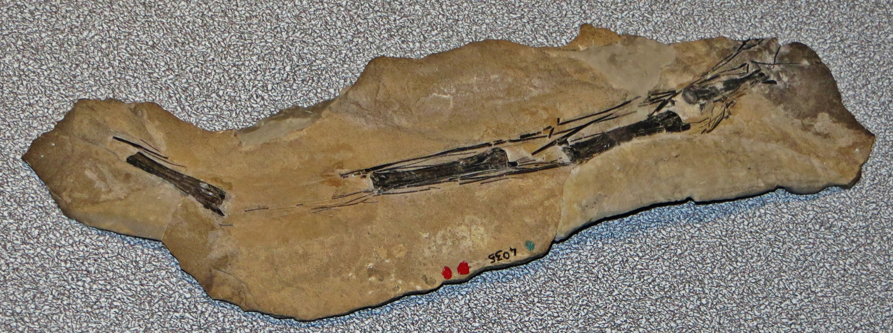 Holotype (MCSNB 4035) of Sclerostropheus fossai Wild 1980 (formerly Tanystropheus), a diapsid reptile from the Upper Triassic of northern Italy on display at the Museo di Scienze Naturali «Enrico Caffi», Bergamo. Due to the incompleteness of the specimen, which comprises a few cervical vertebrates only, there is doubt whether it truly belongs to the genus Tanystropheus.[1]